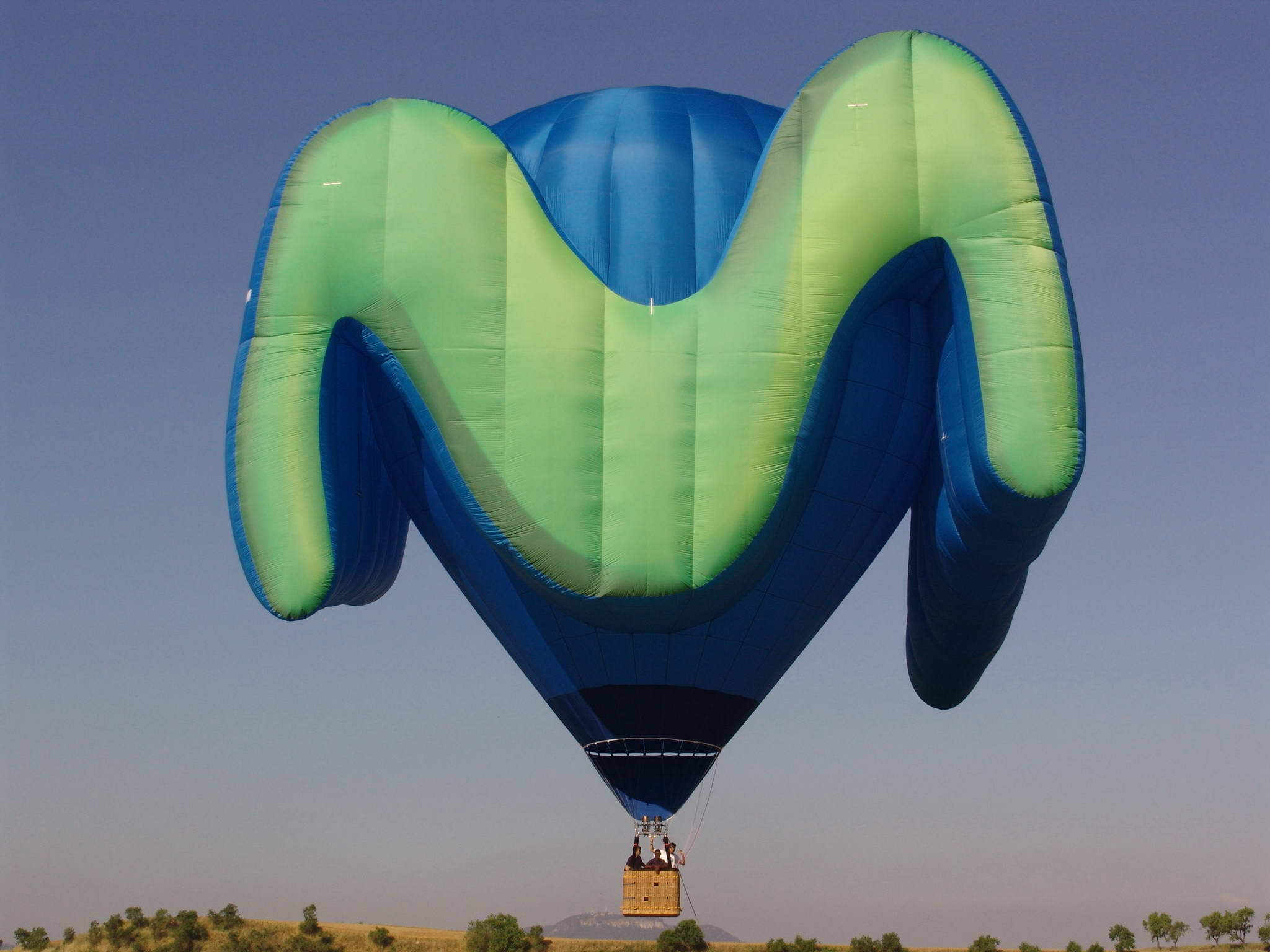 EC-KXC Movistar IV, M-shape balloon (Ultramagic) operated by